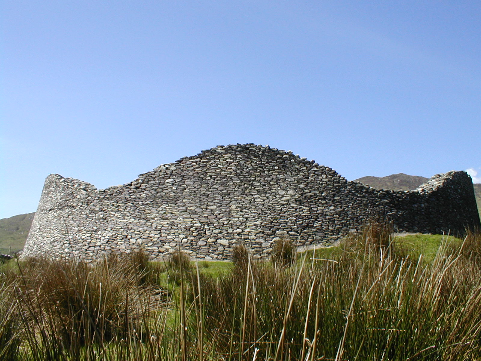 Staigue Fort, County Kerry